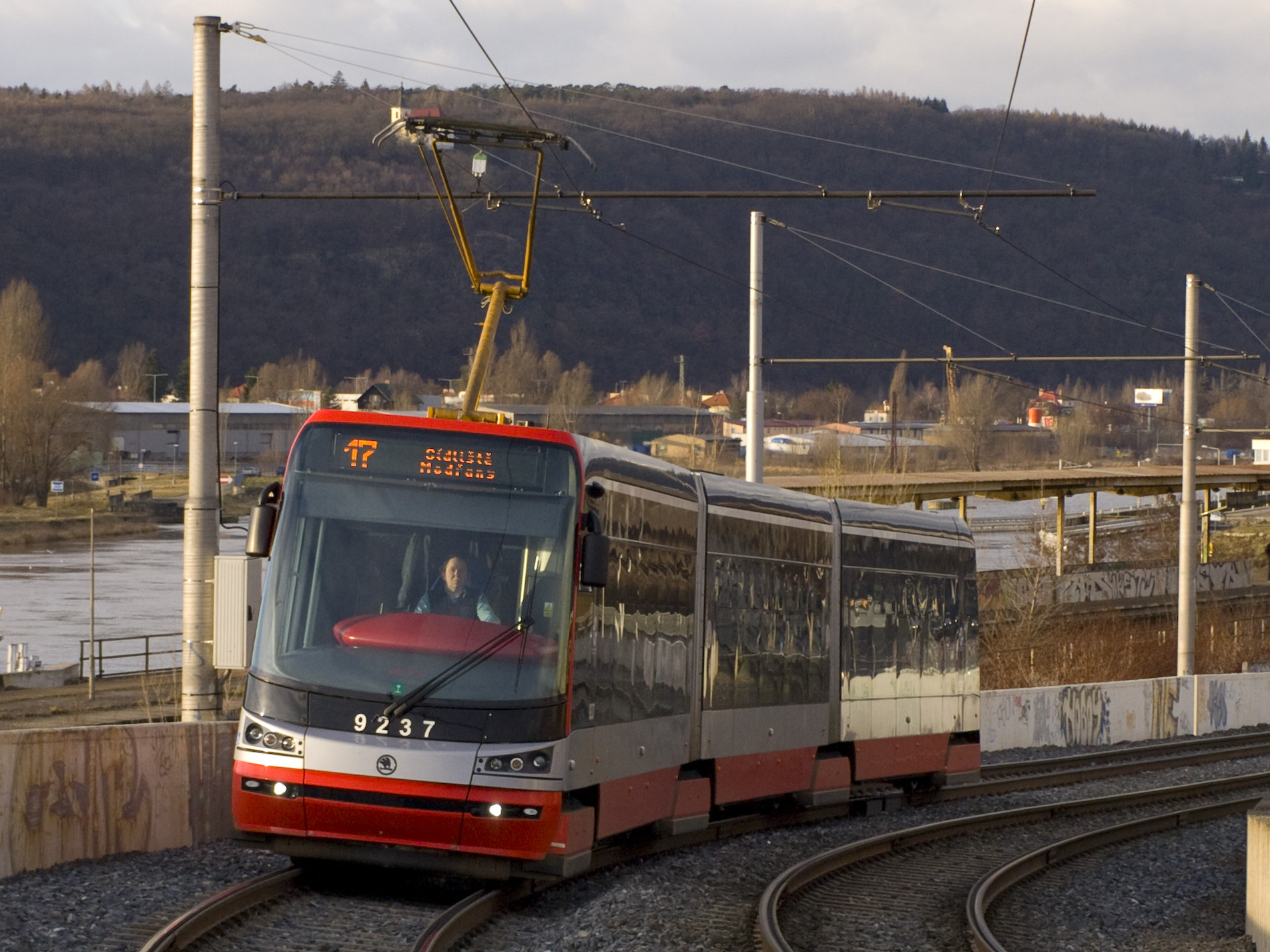 Škoda 15T, tram bridge in Modřany, Prague